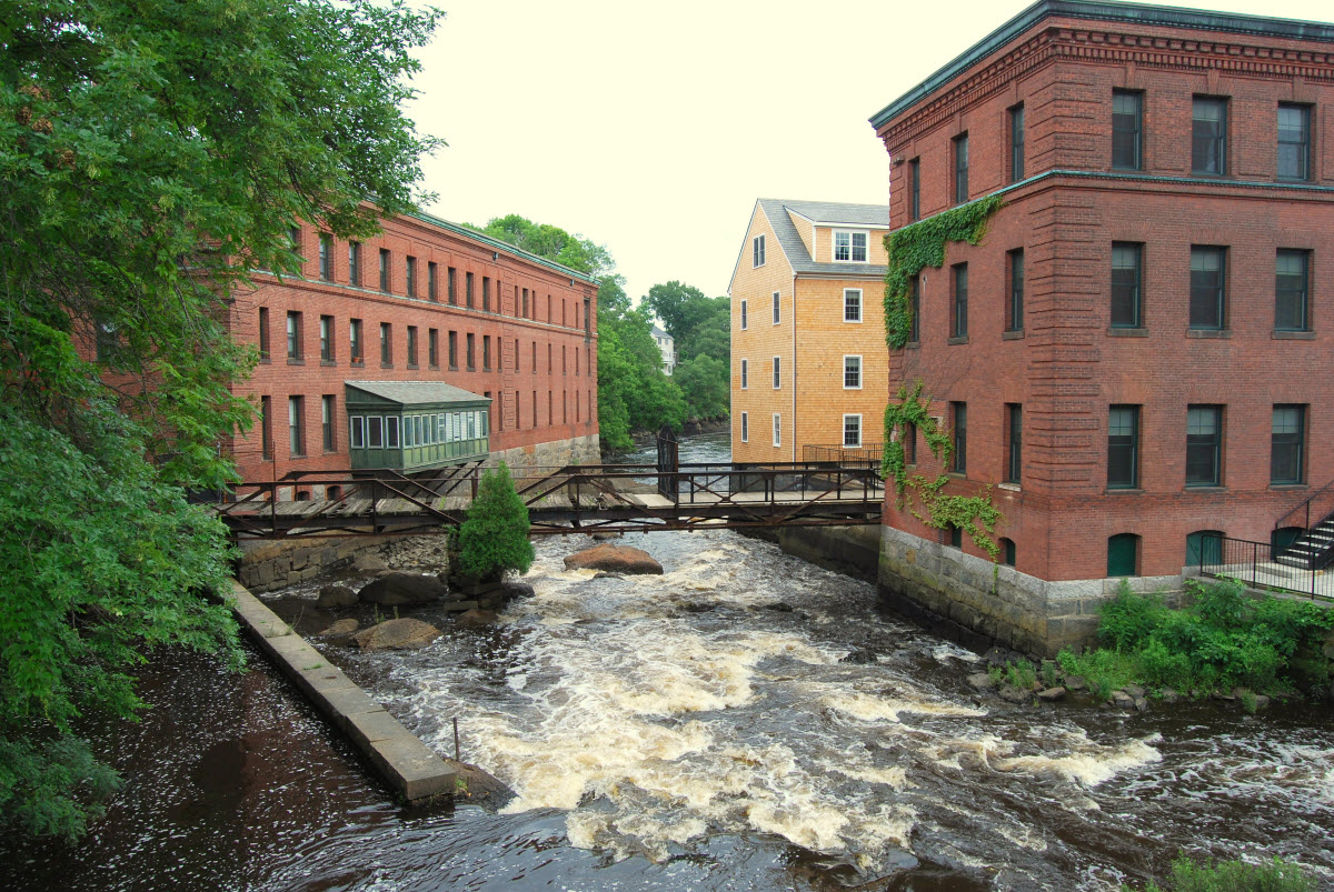 Lower Mills Village, Massachusetts, spanning both sides of the Neponset River between Milton (on the right) and City of Boston (Dorchester) (on the left). These buildings were once part of the Walter Baker Chocolate Factory.